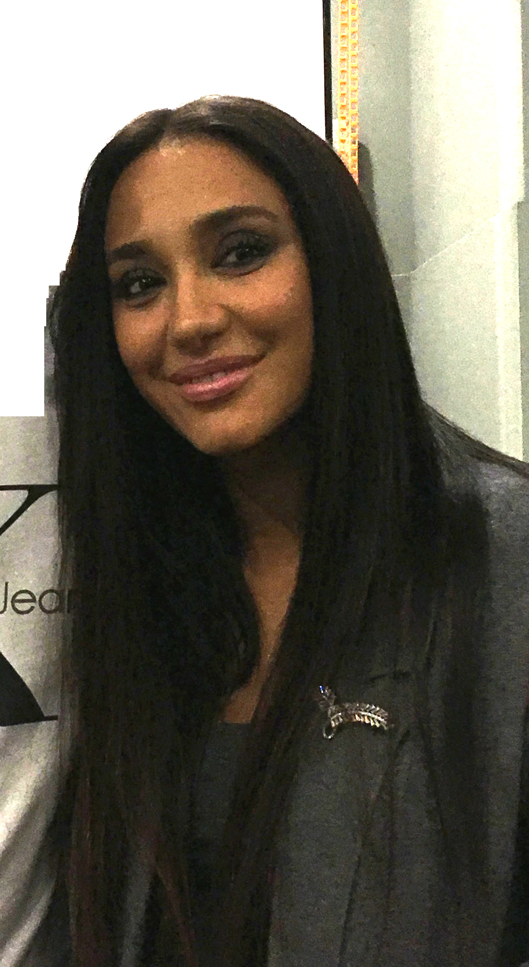 Maria Ilieva - Bulgarian singer